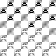 Opening "Vilochka" (Вилочка) in russian checkers